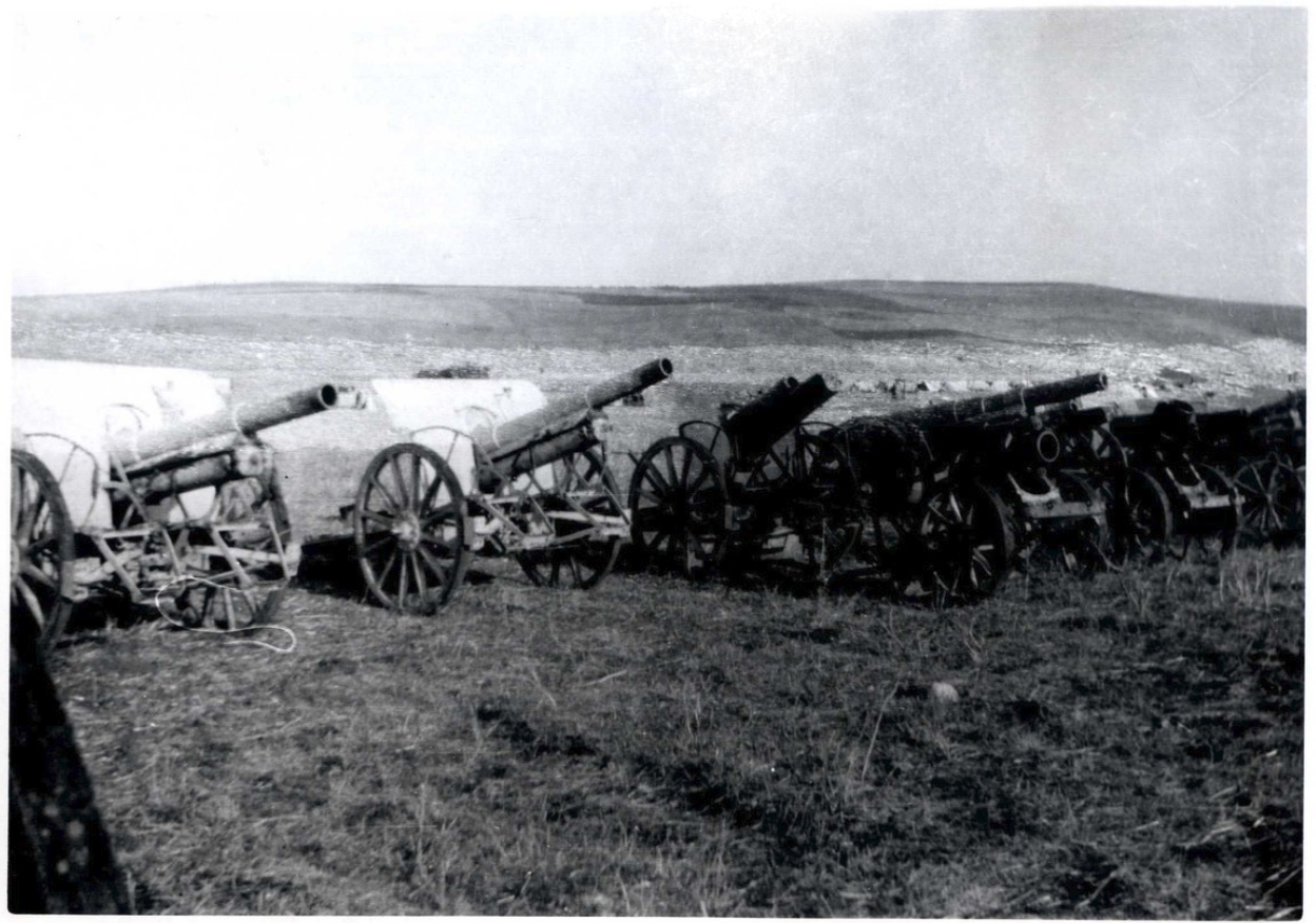 Seized German guns from Kozjak mountain restored in valley of Crna river. Captured by Yugoslav division in 1918, Battle at Dobro pole.